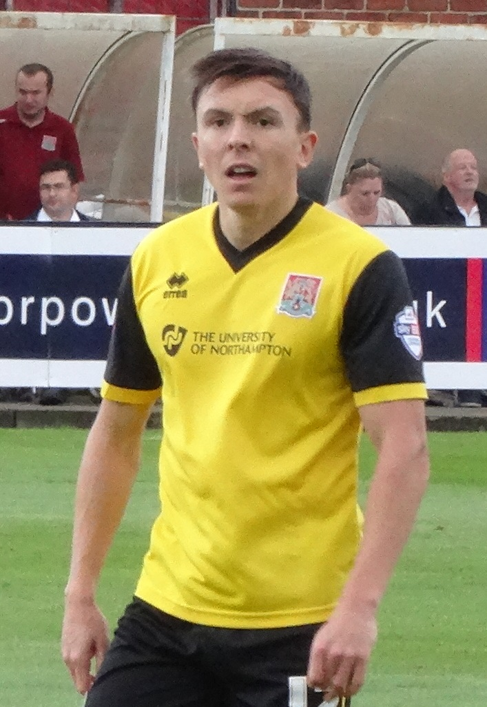 Gregor Robertson playing for Northampton Town against York City at Bootham Crescent, York on 16 August 2014